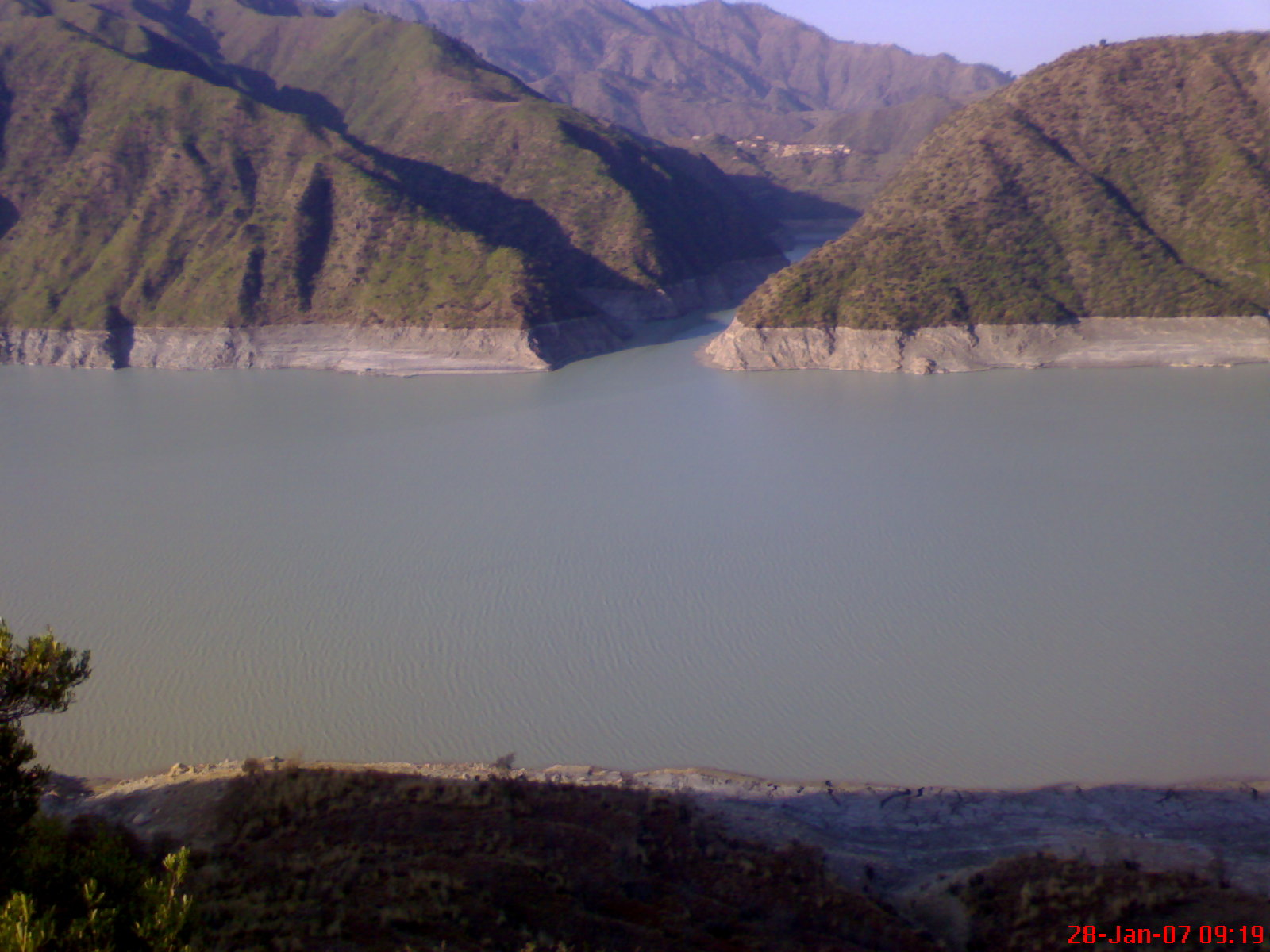 Mighty Indus river, Barndo meets Indus